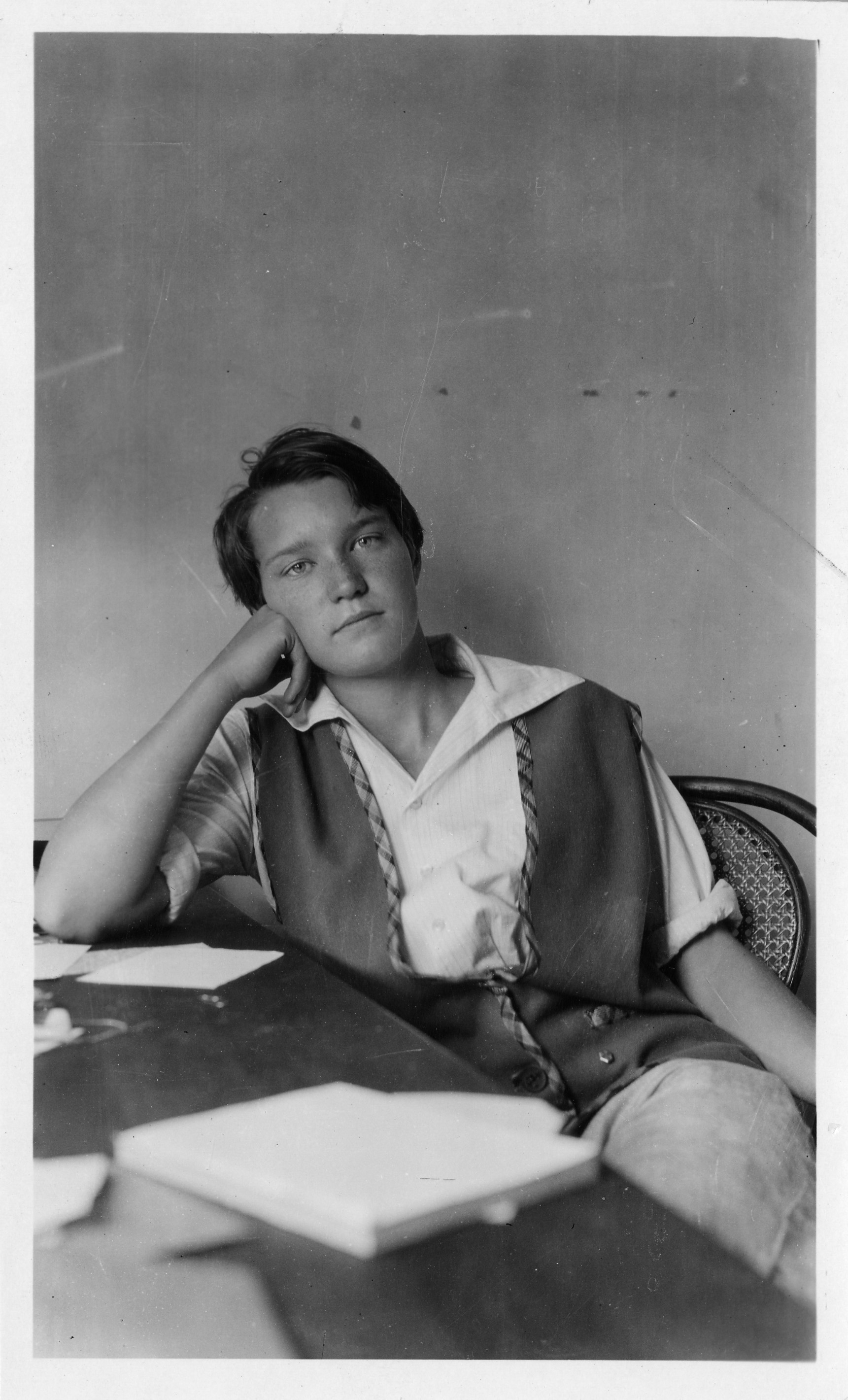 Description: Mary Knight Dunlap (1910-1992), daughter of the psychologist Knight Dunlap (1875-1949), was the founder of the Association for Women Veterinarians. Creator/Photographer: Julian Scott Medium: Black and white photographic print Persistent URL: Repository: Smithsonian Institution Archives Collection: Accession 90-105: Science Service Records, 1920s – 1970s - Science Service, now the Society for Science & the Public, was a news organization founded in 1921 to promote the dissemination of scientific and technical information. Although initially intended as a news service, Science Service produced an extensive array of news features, radio programs, motion pictures, phonograph records, and demonstration kits and it also engaged in various educational, translation, and research activities. Accession number: SIA2008-1470